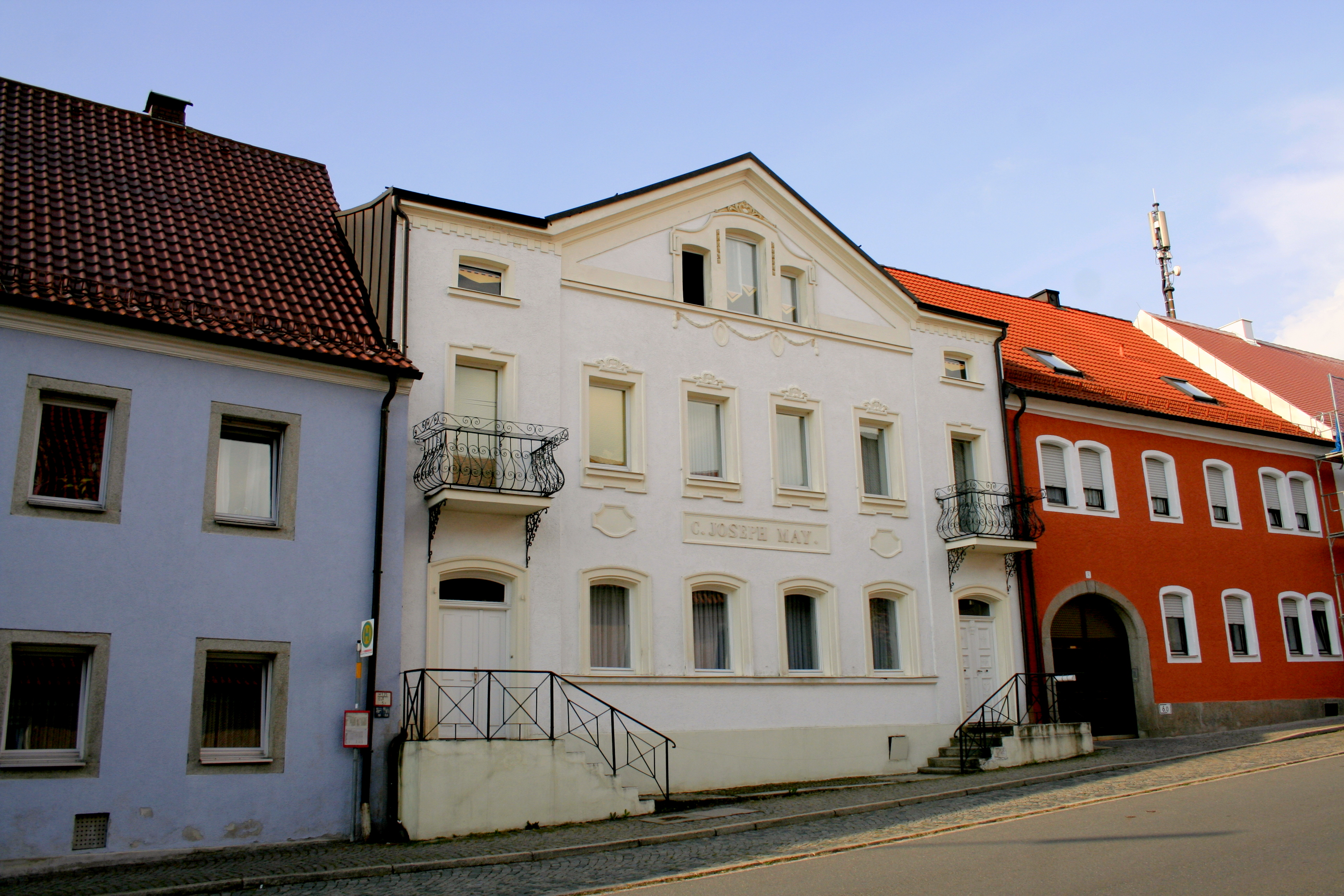 Heritage Building; Germany; Bavaria; Upper Palatinate; administrative district Neustadt a.d. Waldnaab, Waldthurn; House (D-3-74-165-2)